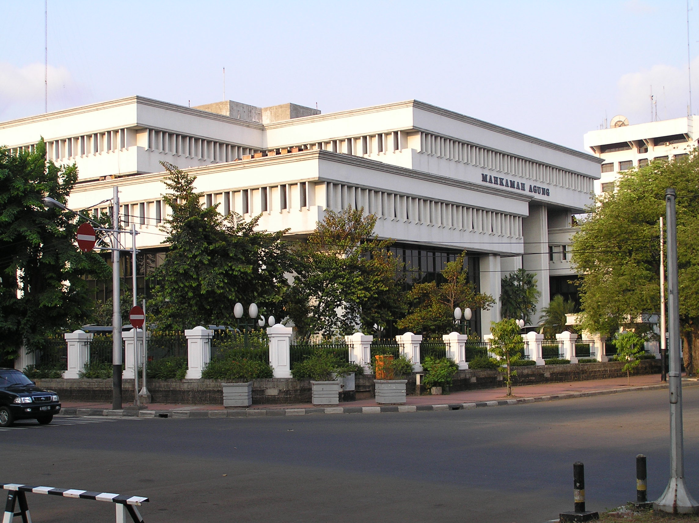 The Indonesian Supreme Court building